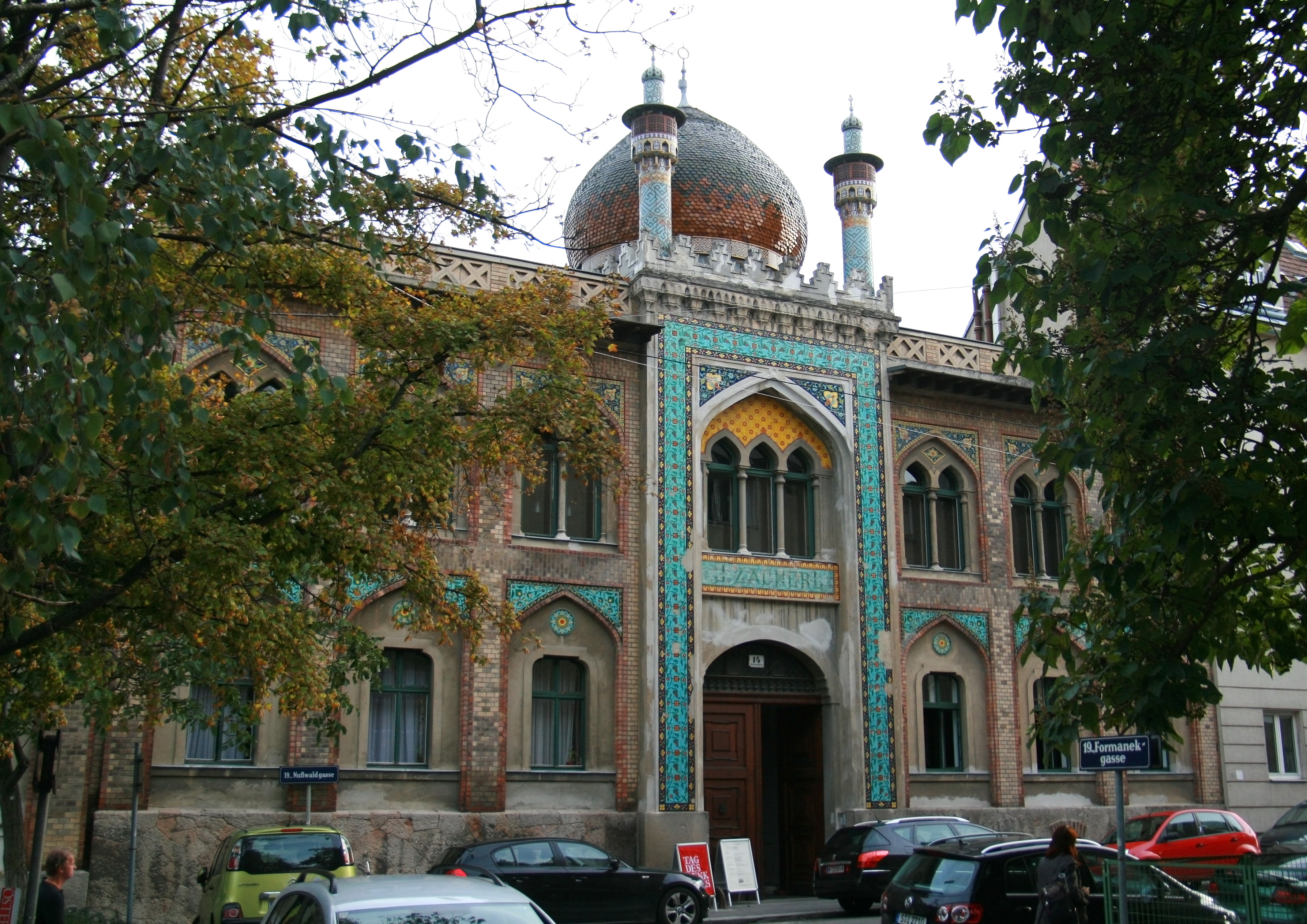 Zacherlfabrik in Vienna, Austria. Dieses Bild wurde anlässlich des österreichischen Tags des Denkmals 2012 in Wien eingereicht.